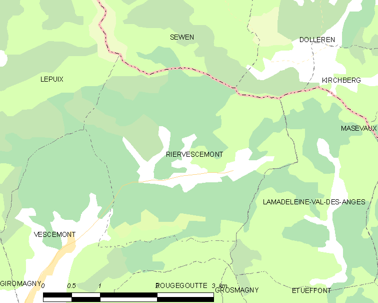 Map of French municipality Riervescemont